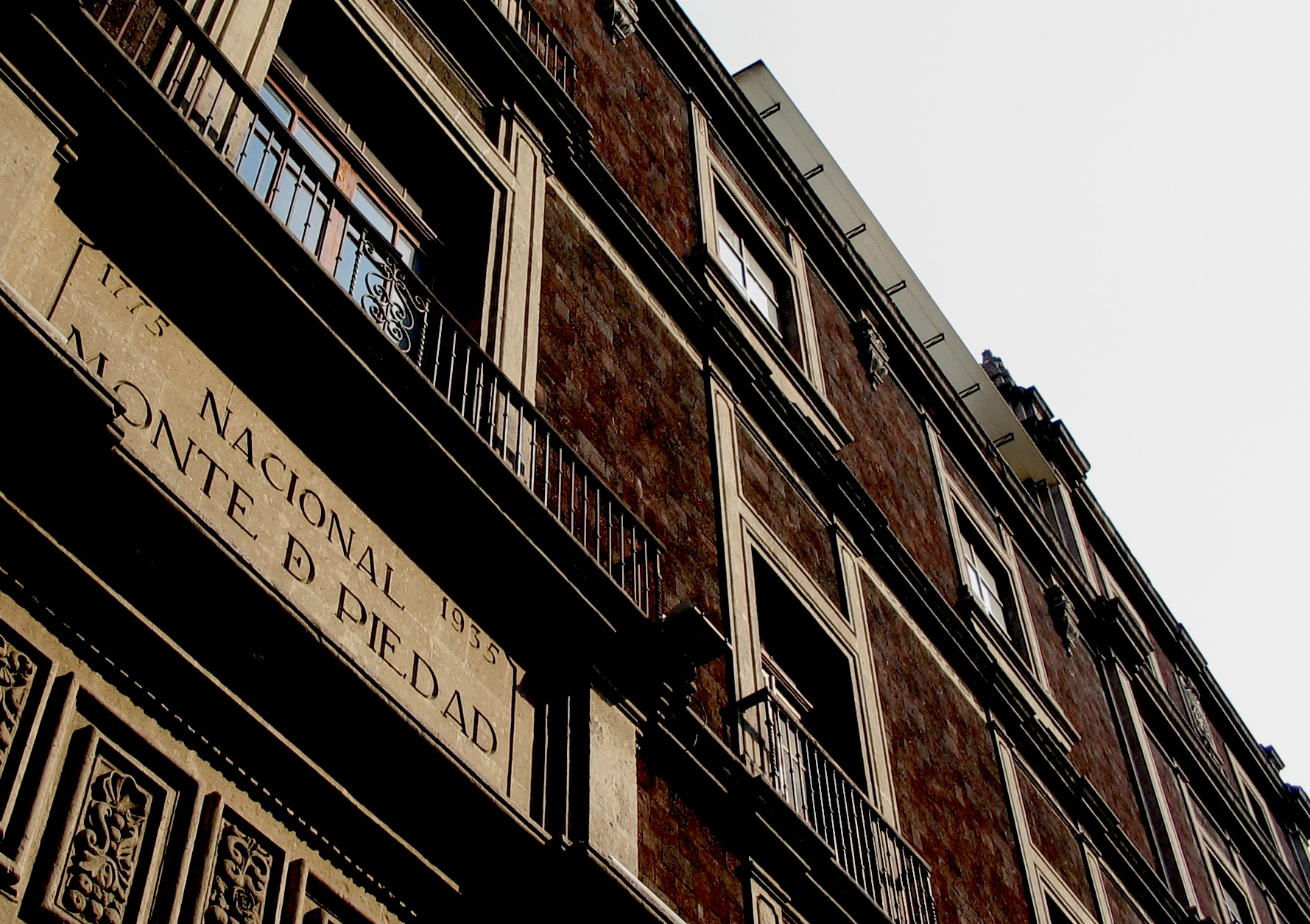 Fachada de Casa Matriz